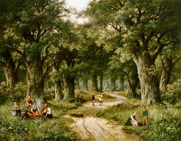 BOEREN BIJ EEN VUURPLAATS AAN DE RAND VAN EEN BOSWEG